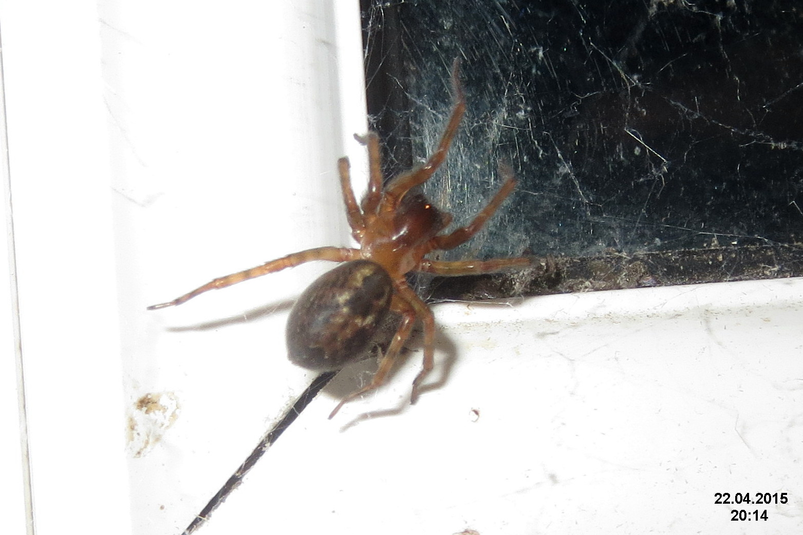 Amaurobius fenestralis - window lace-weaver.